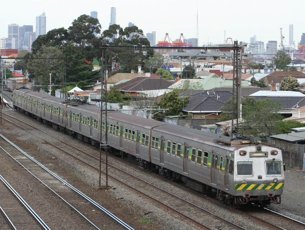 Hitachi train 42M near Middle Footscray station - Melbourne Australia.